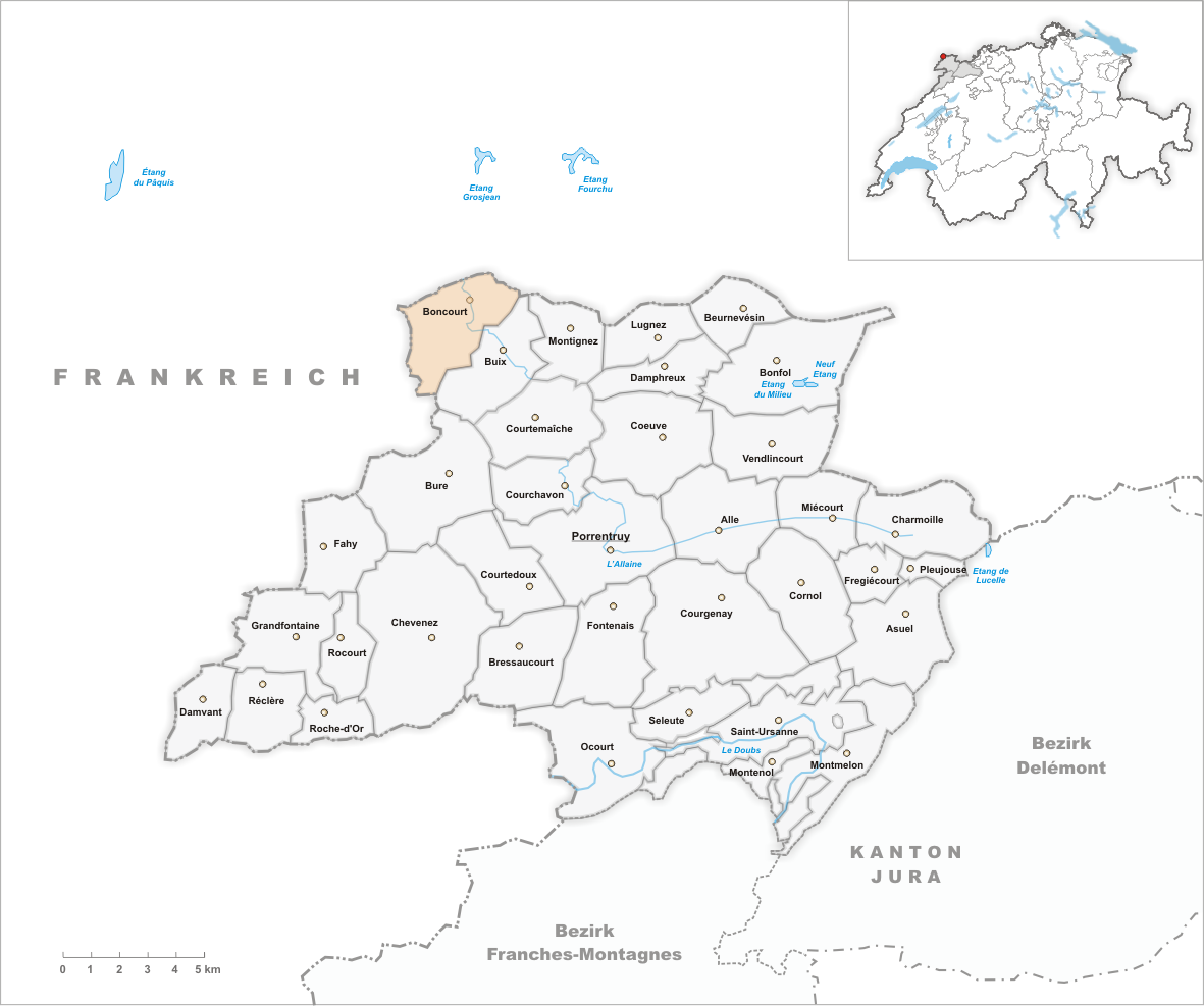 Municipality Boncourt Artist: Tschubby